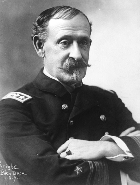 Photo # NH 85942 RAdm. W.S. Shley